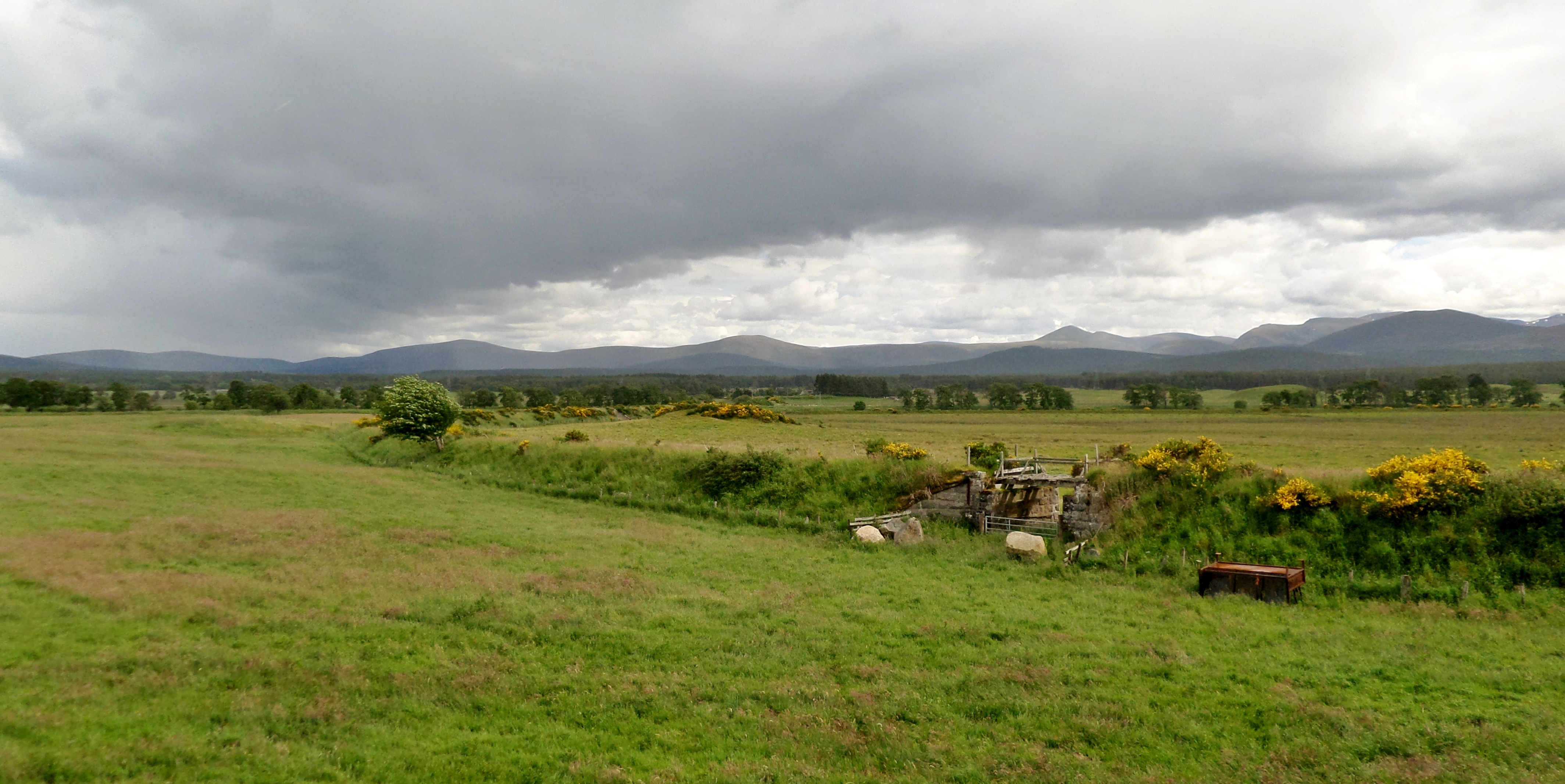 The trackbed formation of Broomhill Junction on the Strathspey Railway (GNoSR), Scotland.